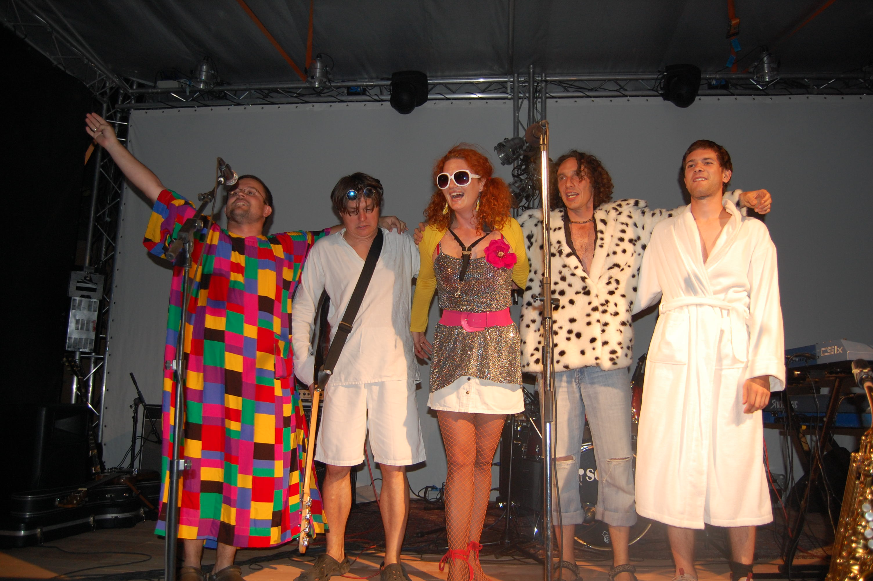 Slovak funk rock band Sto múch performing in 2009